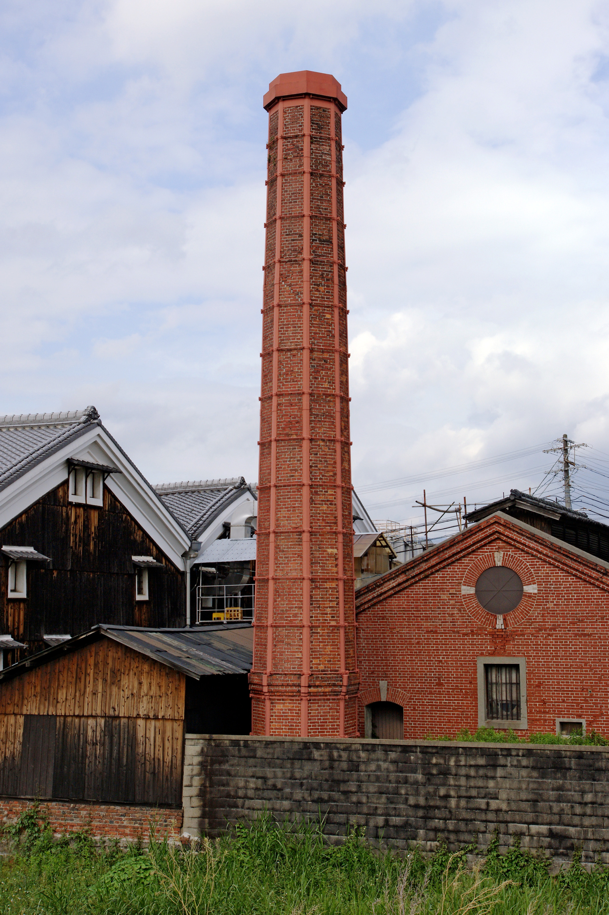 Matsumoto Sake Brewing in Fushimi, Kyoto, Kyoto prefecture, Japan